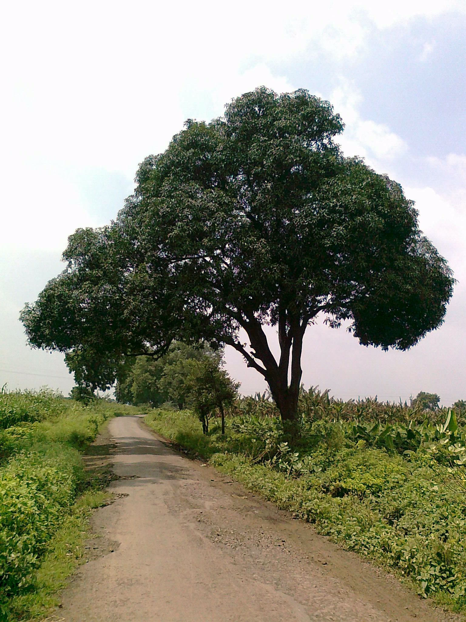 Mango tree, Rozoda road, Chinawal village, India